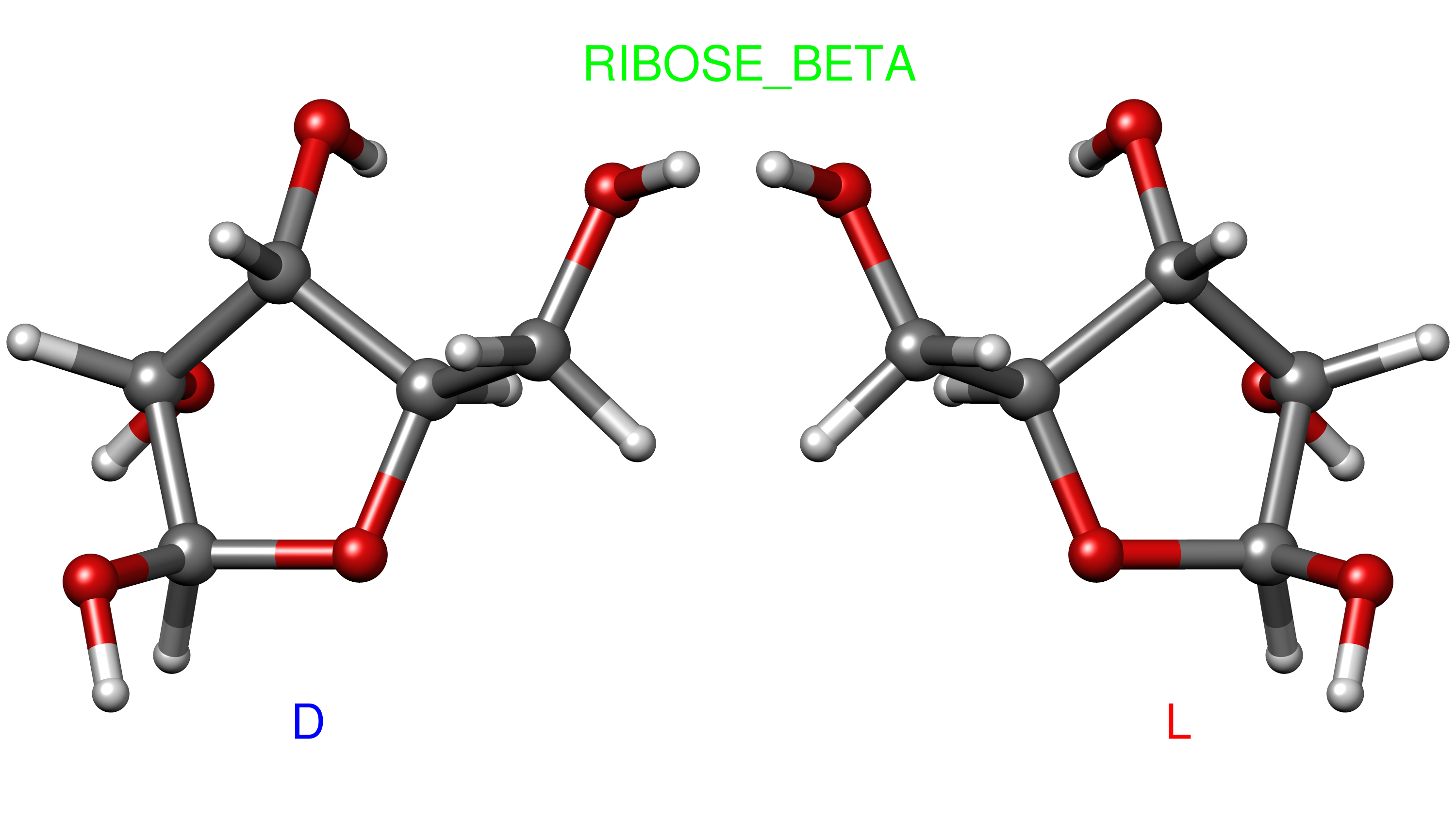 Ball-and-stick model of beta-ribose (D, L)